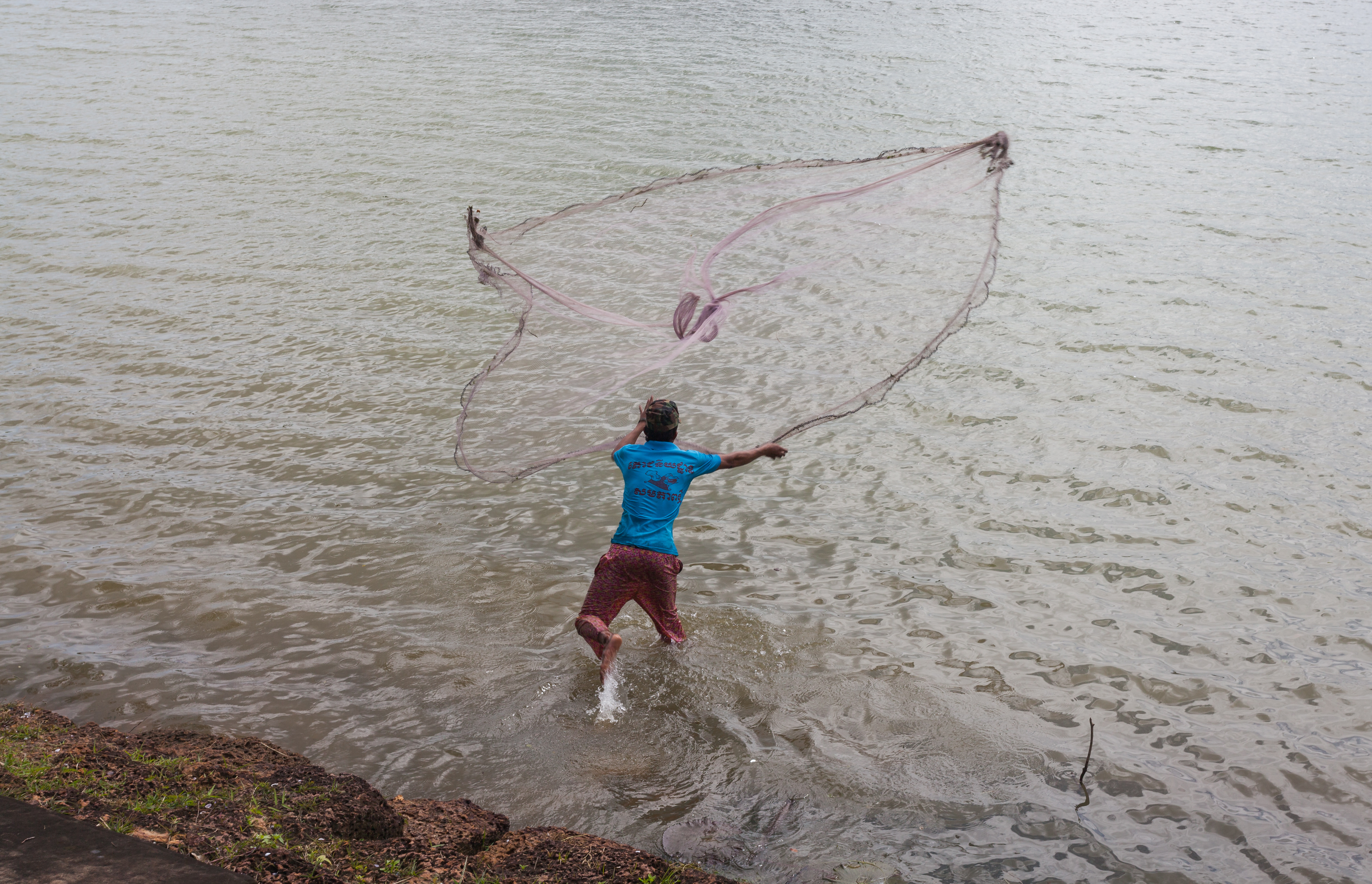 Srah Srang, Angkor, Cambodia